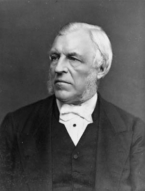 Henry Allon (1818–1892), English Nonconformist minister. By photographer duo Lock & Whitfield (active 1856-1894), published 1879.